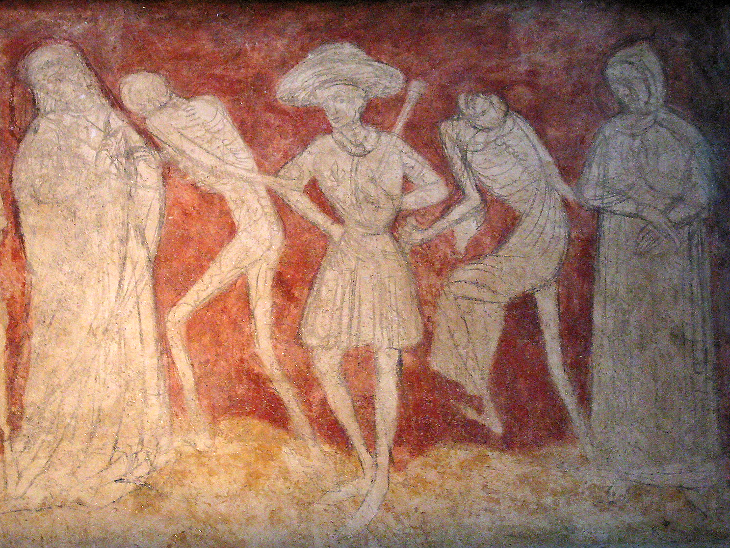 La Chaise-Dieu (Haute-Loire - France), aisle north of the abbey church Saint-Victor - Fragment of the fresco of the danse macabre, where are represented the nun, the policeman flanked by two humans who are perished and the Carthusian monk (mid-XVth century).